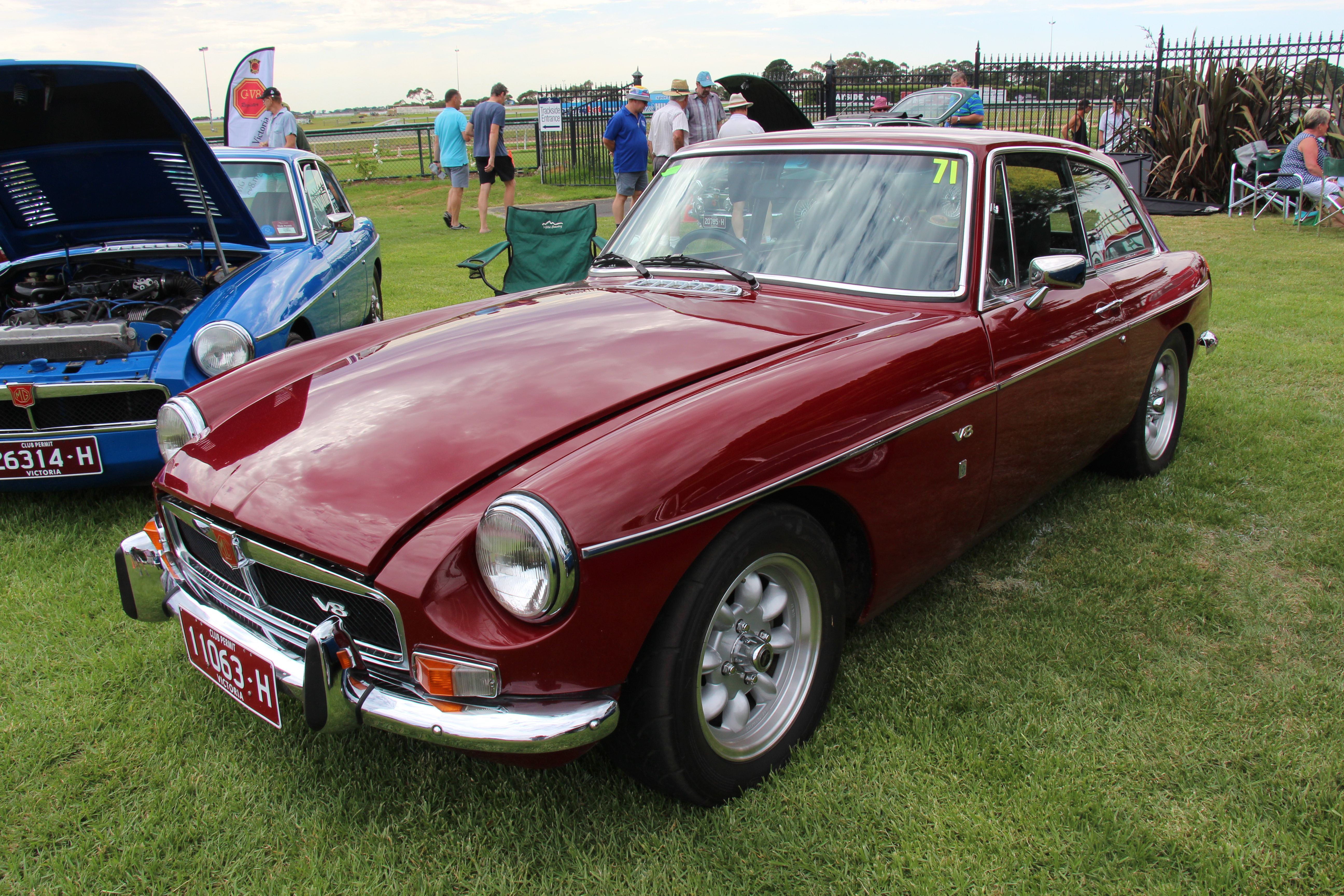 In 1962 the MGA was replaced by the MGB, getting a redesigned lighter body and chassis giving it more space. It was also a better handling car. In England the Mk I was made from 1962-67, also assembled in Australia from 1963-72. Originally only available as a Roadster and engine; 1798cc 4 cyl with twin SUs, 1965 MGB GT Hardtop 2+2 Coupe available with hatch back 1967 Mk II got a few mechanical upgrades including a new gearbox causing the floor pan to be changed. and the 6 cyl MGC available; 145hp 2912cc Austin 1970 saw split rear bumpers with the number-plate in between 1971 saw a new front grille, recessed, in black aluminium. 1972 Mk III and the more traditional-looking polished grille returned now with central divider and a black honeycomb insert. 1973 MGB GT V8 available 137hp 3528cc aluminium Rover V8 1974 A new, steel-reinforced black rubber bumper at the front incorporated the grille area and a matching rear bumper